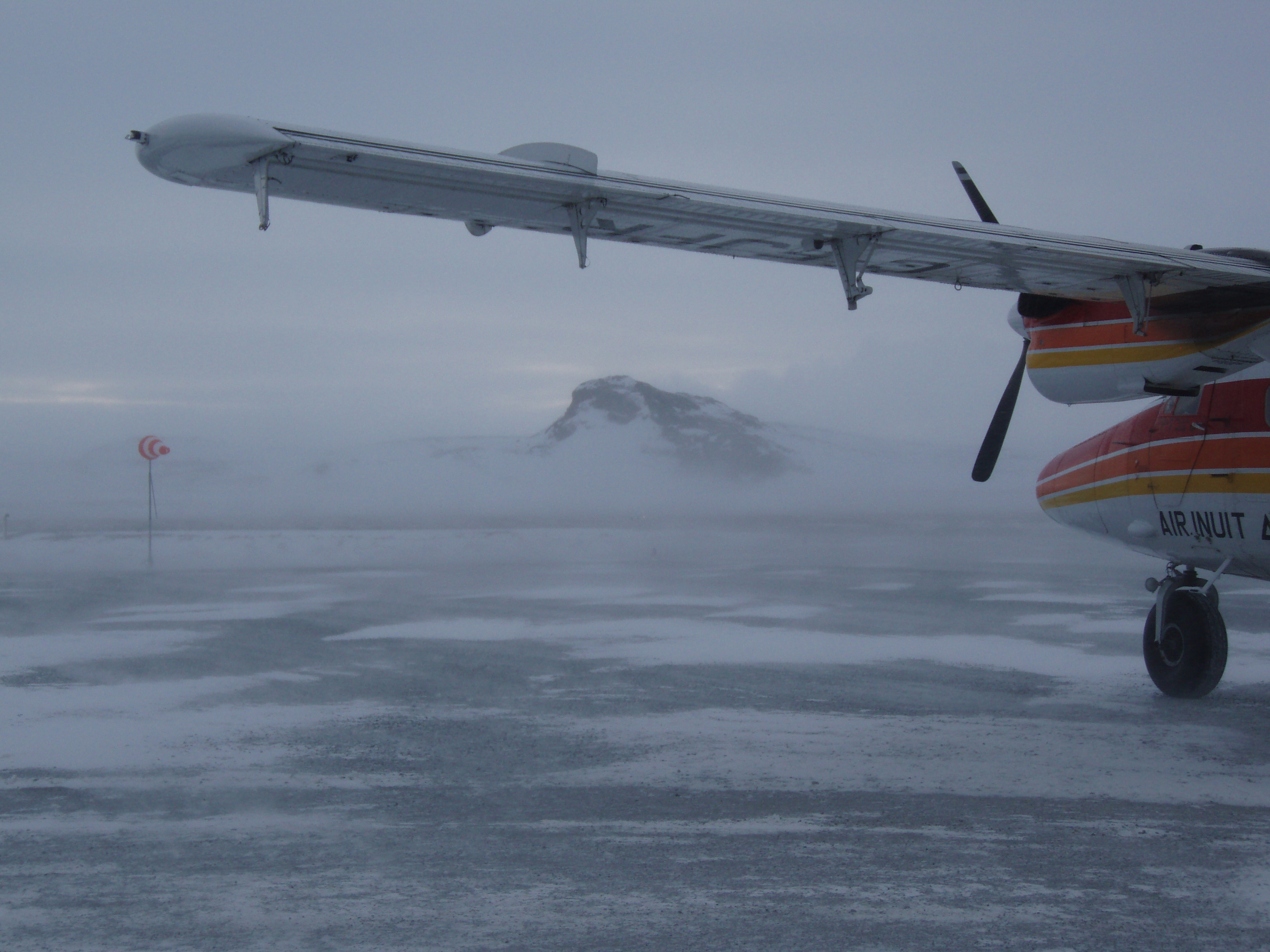 The airstrip of the Tasiujak airport in busy winter weather at some time in 2007. The airplane is a De Havilland DHC-6 Twin Otter bearing its airline's name, "Air Inuit", on its flank.